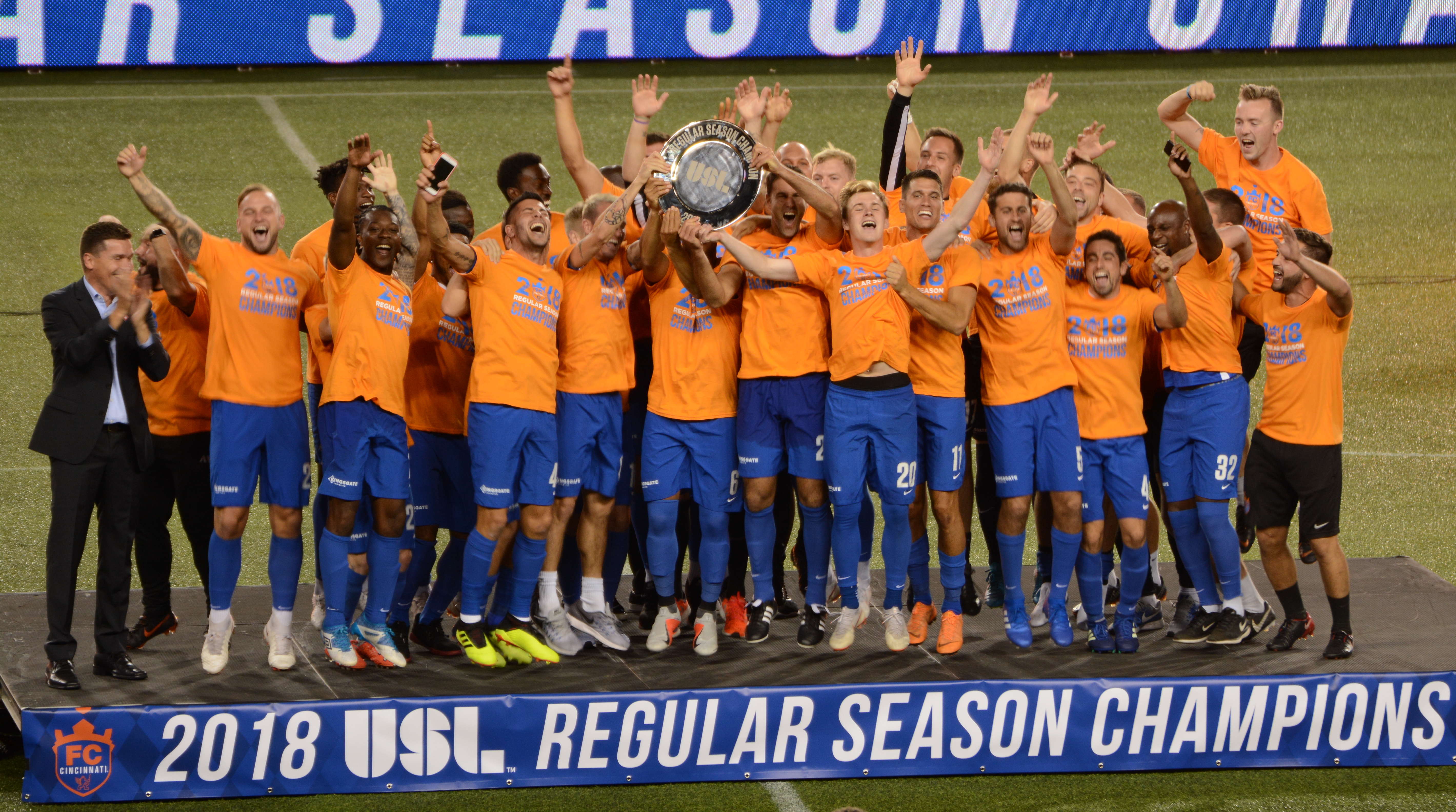 The players and coaching staff of FC Cincinnati celebrate winning the 2018 USL regular season title at Nippert Stadium. The celebration took place after the conclusion of a home match against Indy Eleven on September 26, 2018.